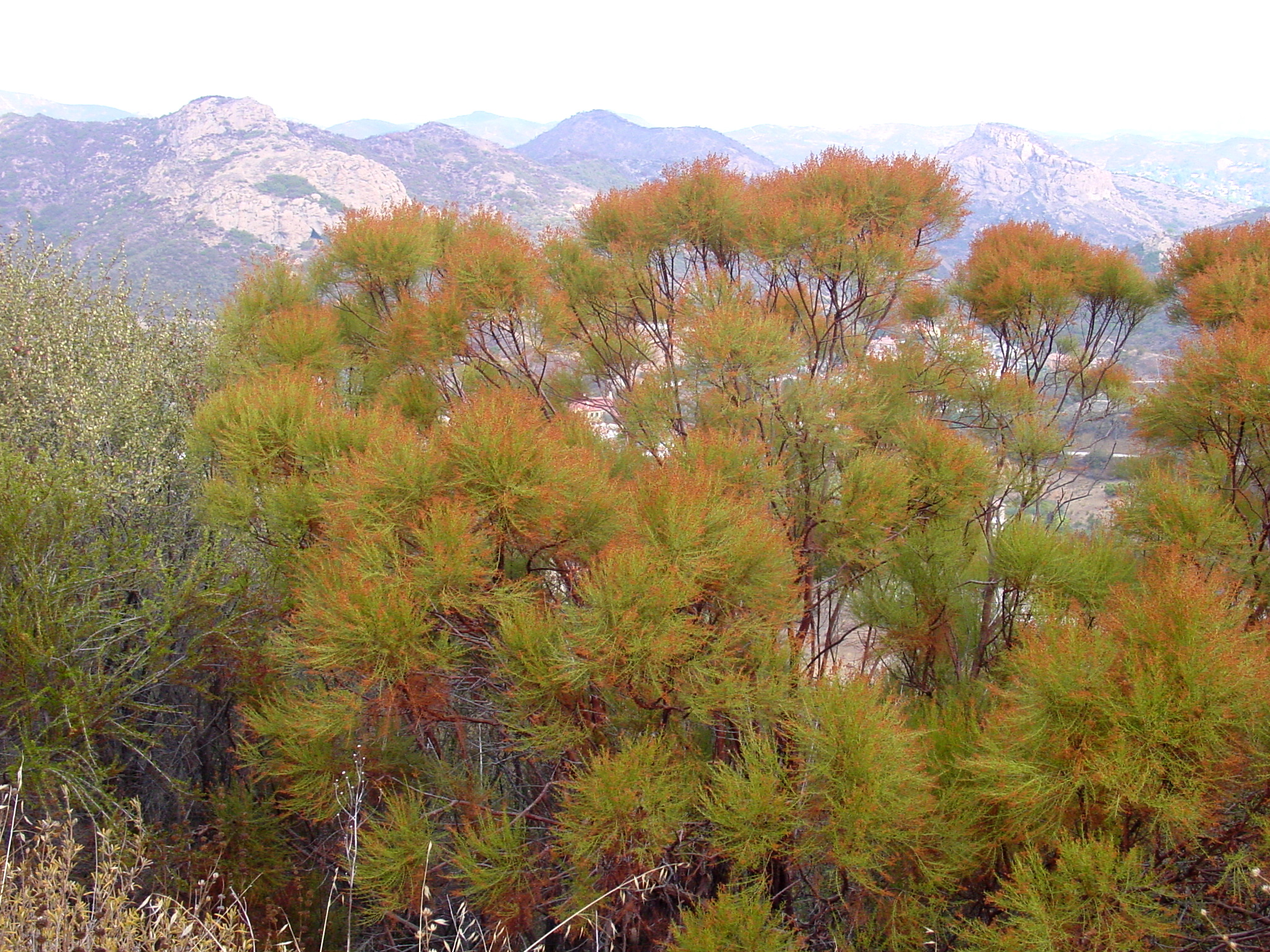 Adenostoma sparsifolium in Santa Monica Mountains Recreation Area